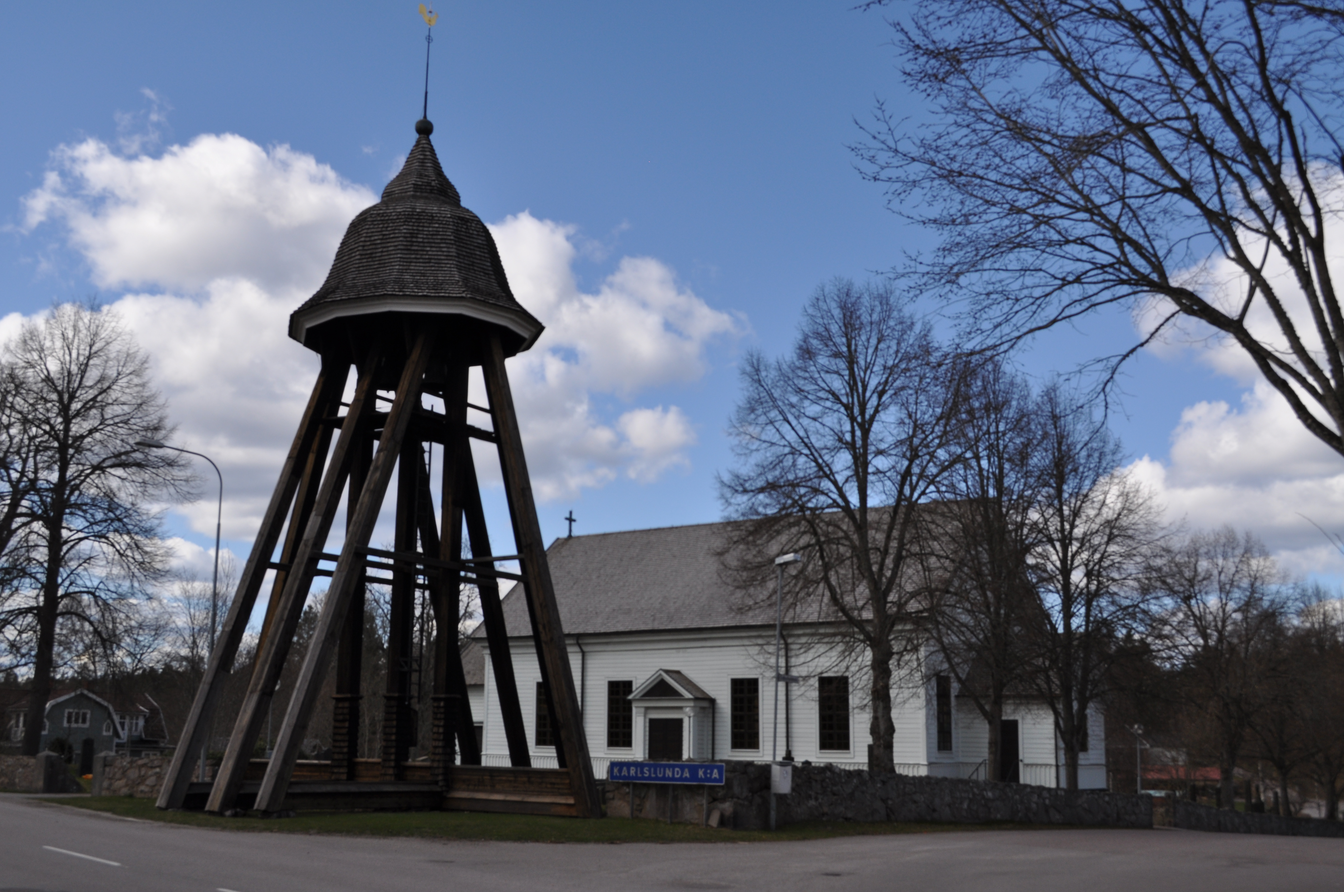 Karlslunda church - Karlskunda Kyrka Sweden